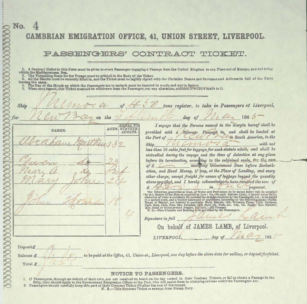 Ticket of the Rev. Abraham Matthews, his wife Gwenllian, baby Mary Ann, Gwenllian's brother John (Murray) Thomas and Mary John, who sailed on the 'Mimosa'. The 'Mimosa' carried the first emigrants to Patagonia and sailed from Liverpool on 28 May 1865. The Rev. Abraham Matthews, a native of Llanidloes, served as a Nonconformist minister in Patagonia until his death.